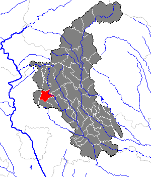 This map shows the area of the Gemeinde (municipality) Arzberg in the Bezirk (district) Weiz, Styria, Austria.